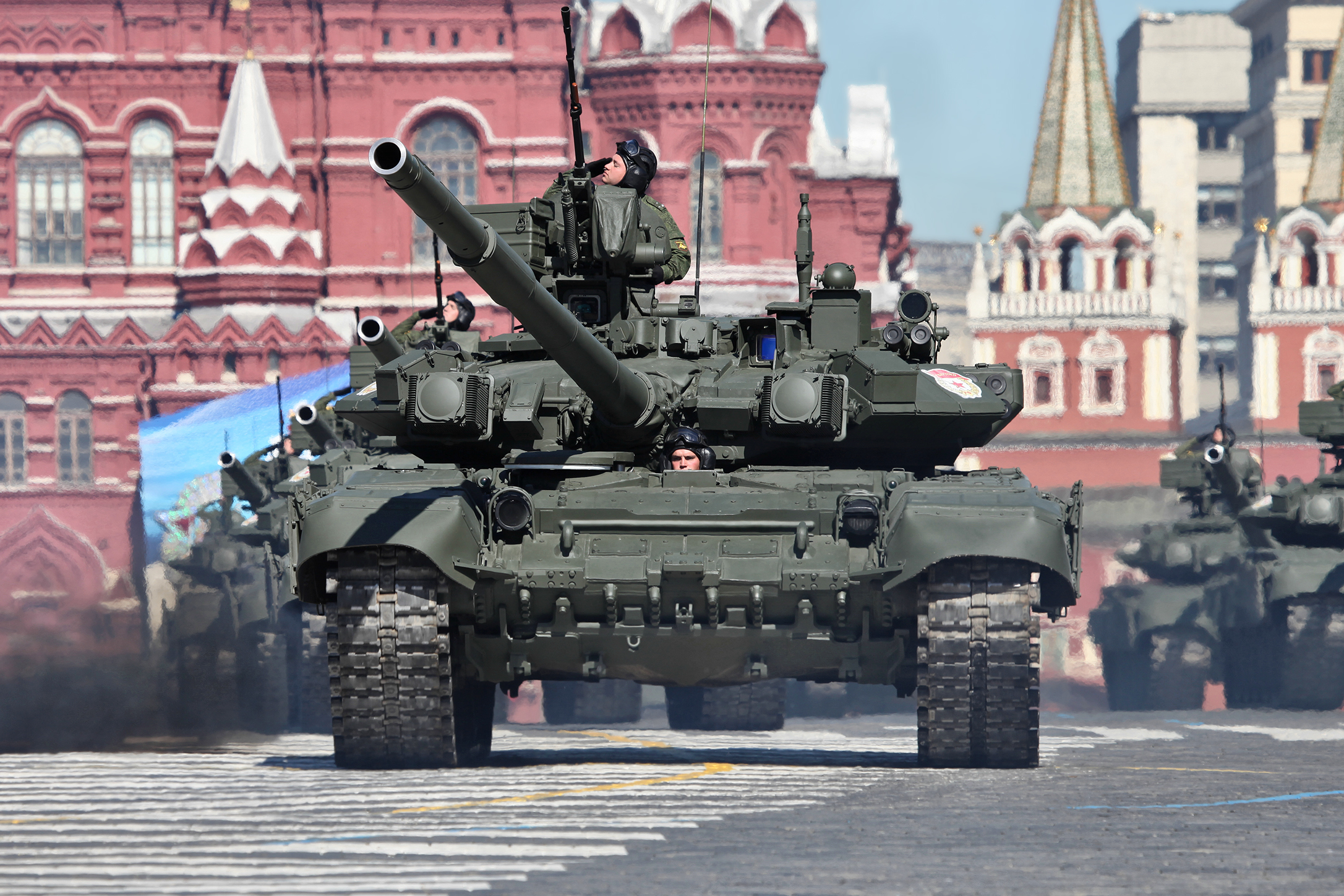 T-90A main battle tank